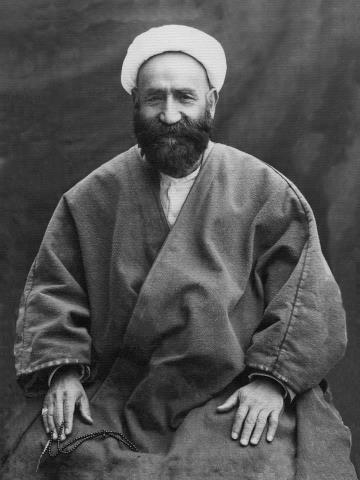 Molla Soltan Mohammad Gonabadi